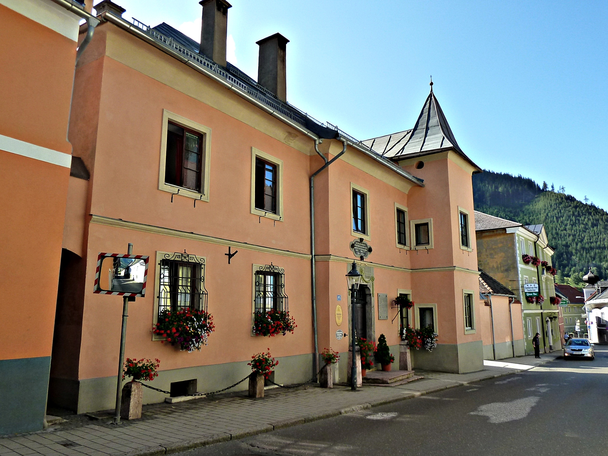 Manor-House of Blast Furnace III